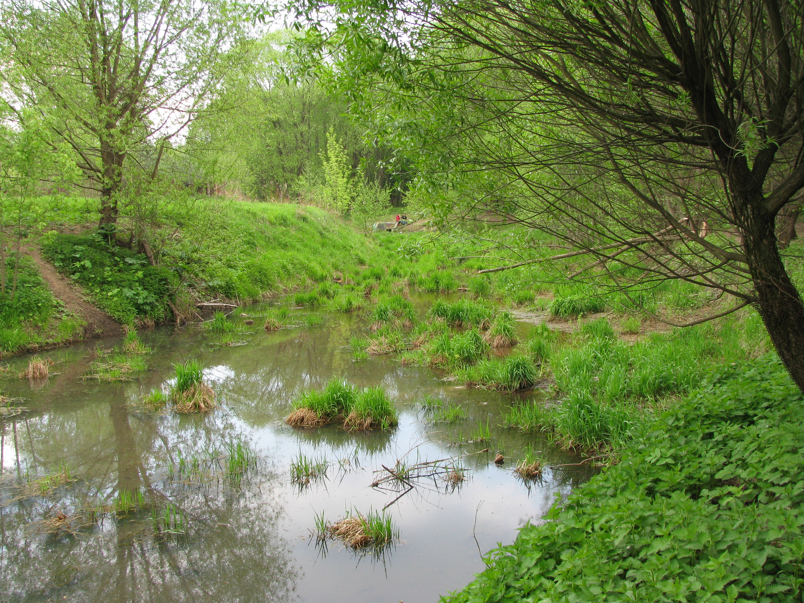 Khimka river in Moscow park Pokrovskoye-Streshenevo